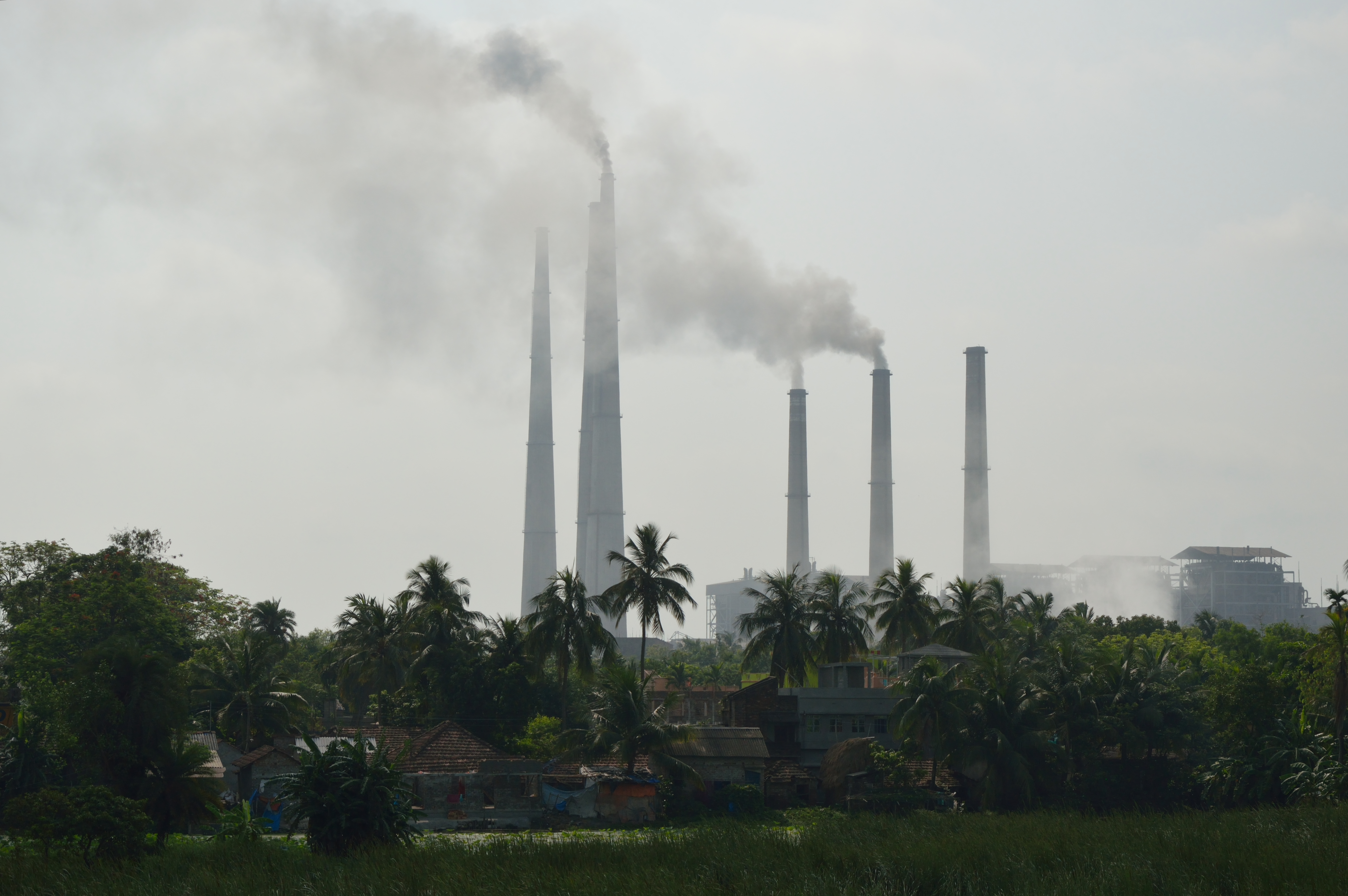 Photographed in Purba Medinipur, West Bengal.